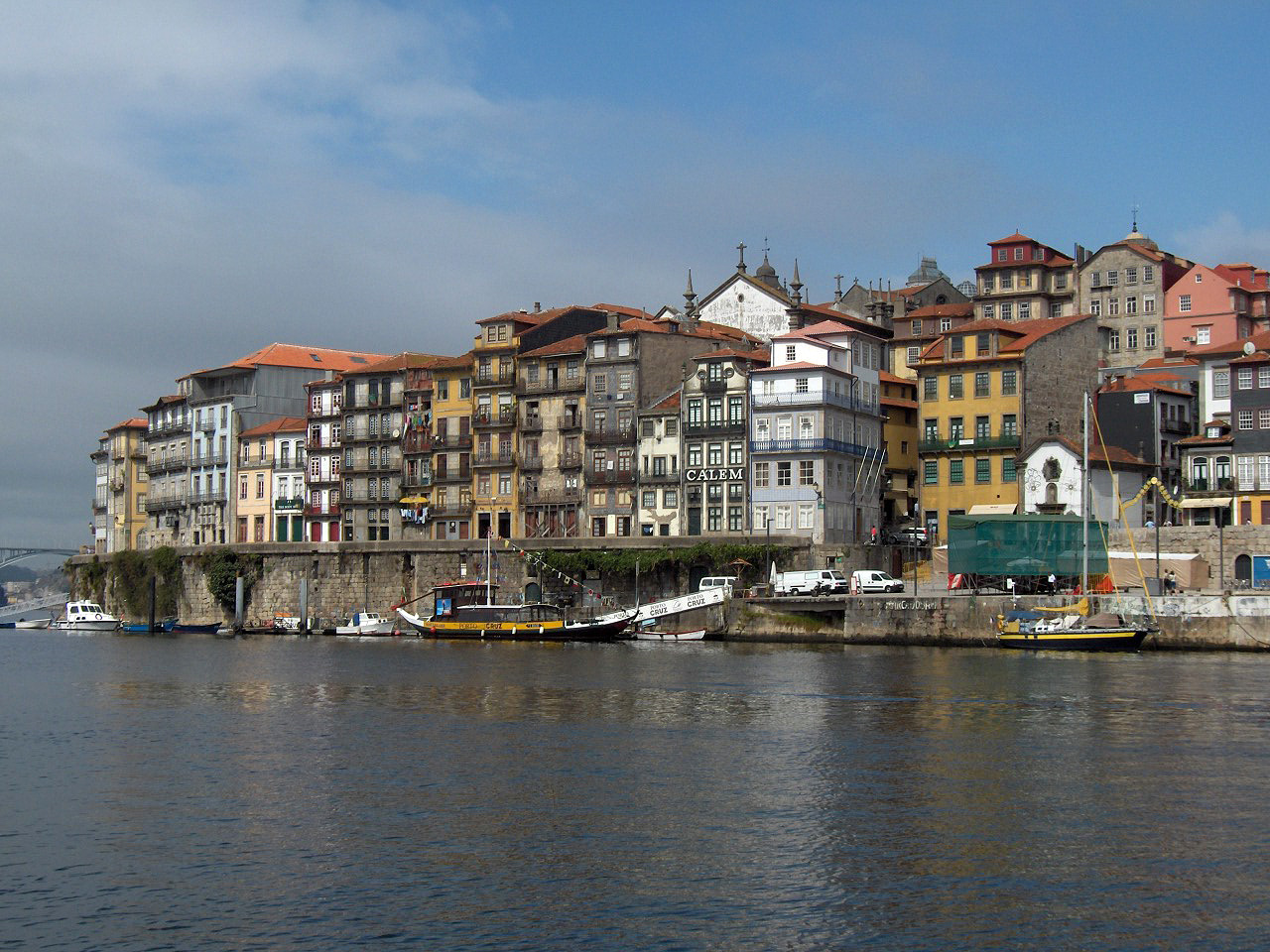 Ribeira, an old district of Porto, Portugal